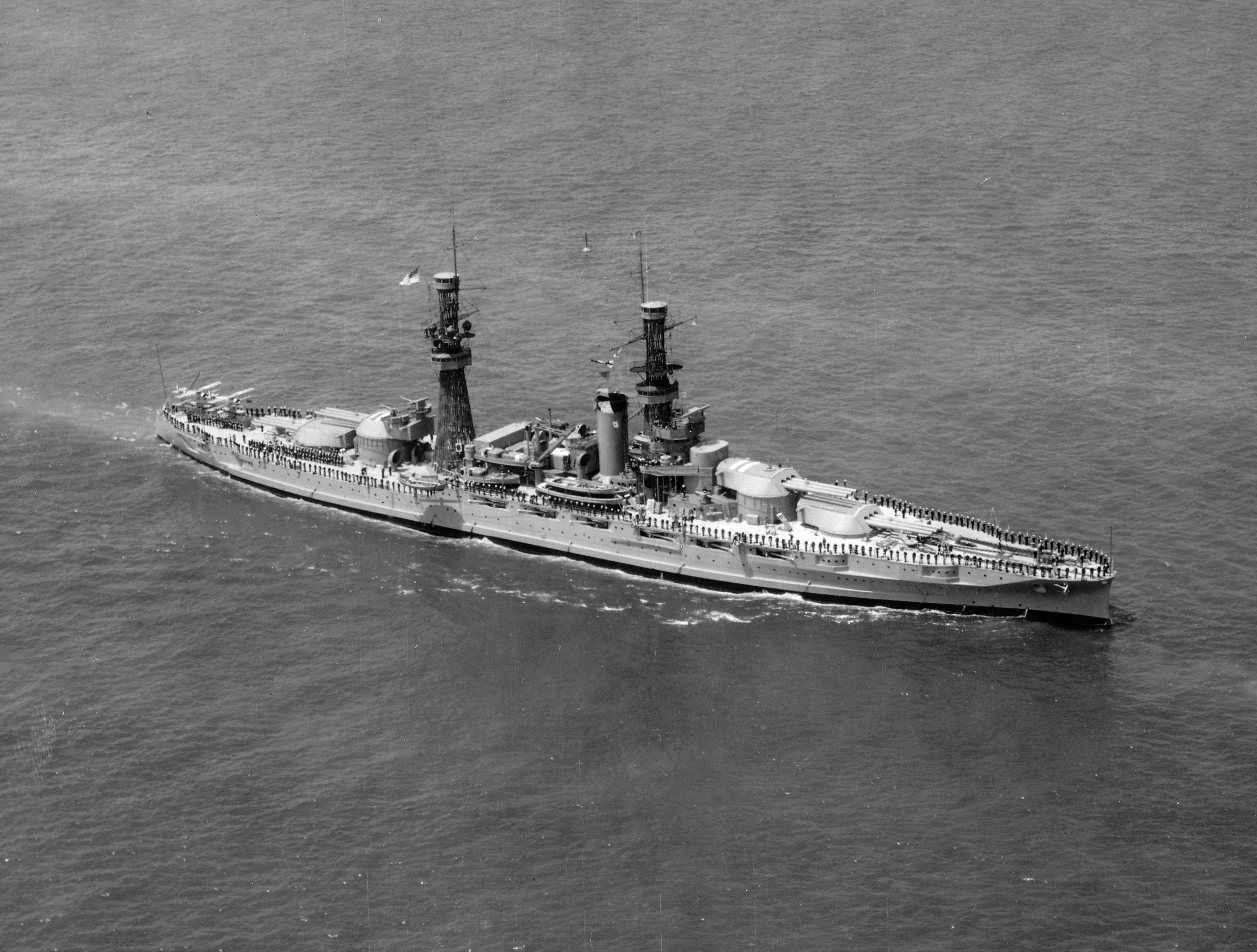 Aerial view of the USS Pennsylvania during a presidential naval review in Hampton Roads, Virginia, June 4, 1927.